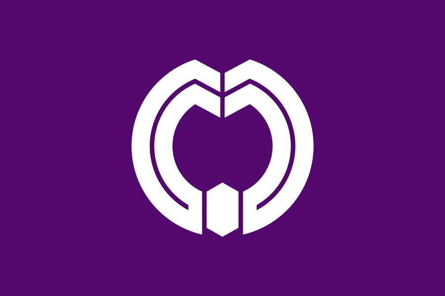 Flag of Minamata, Kumamoto